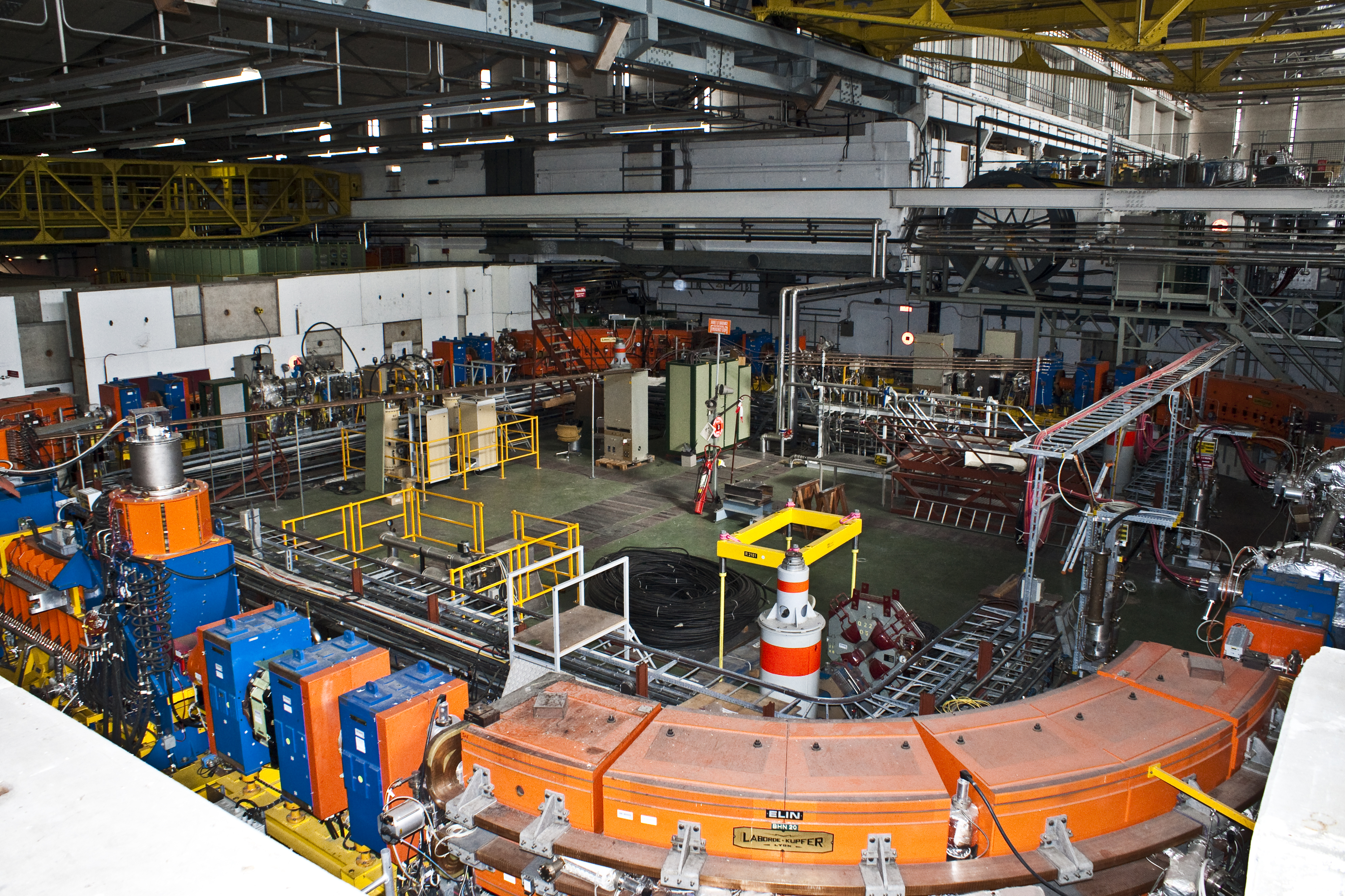 This photo shows the Low Energy Antiproton Ring (LEAR) at CERN where the first atoms of antihydrogen were created.